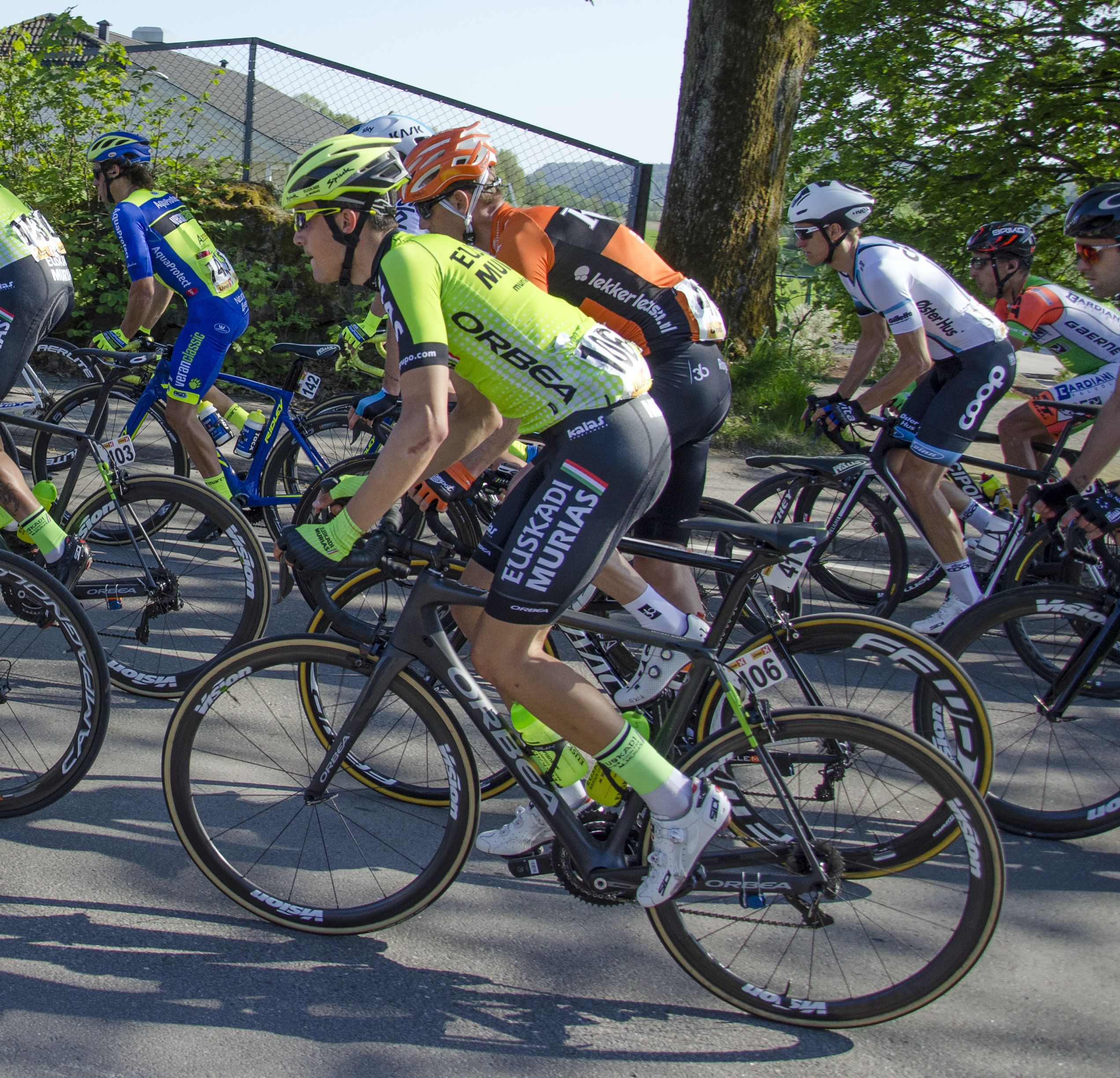 Sergio Samitier Samitier - Tour of Norway 2018